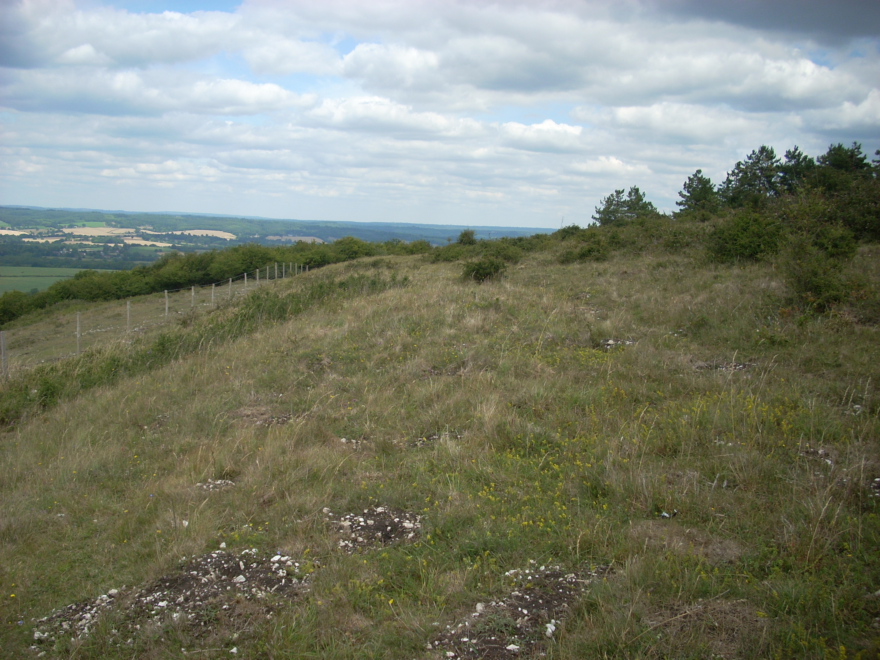 Rampart of the Iron Age hillfort on Beacon Hill, near East Harting, West Sussex, UK.